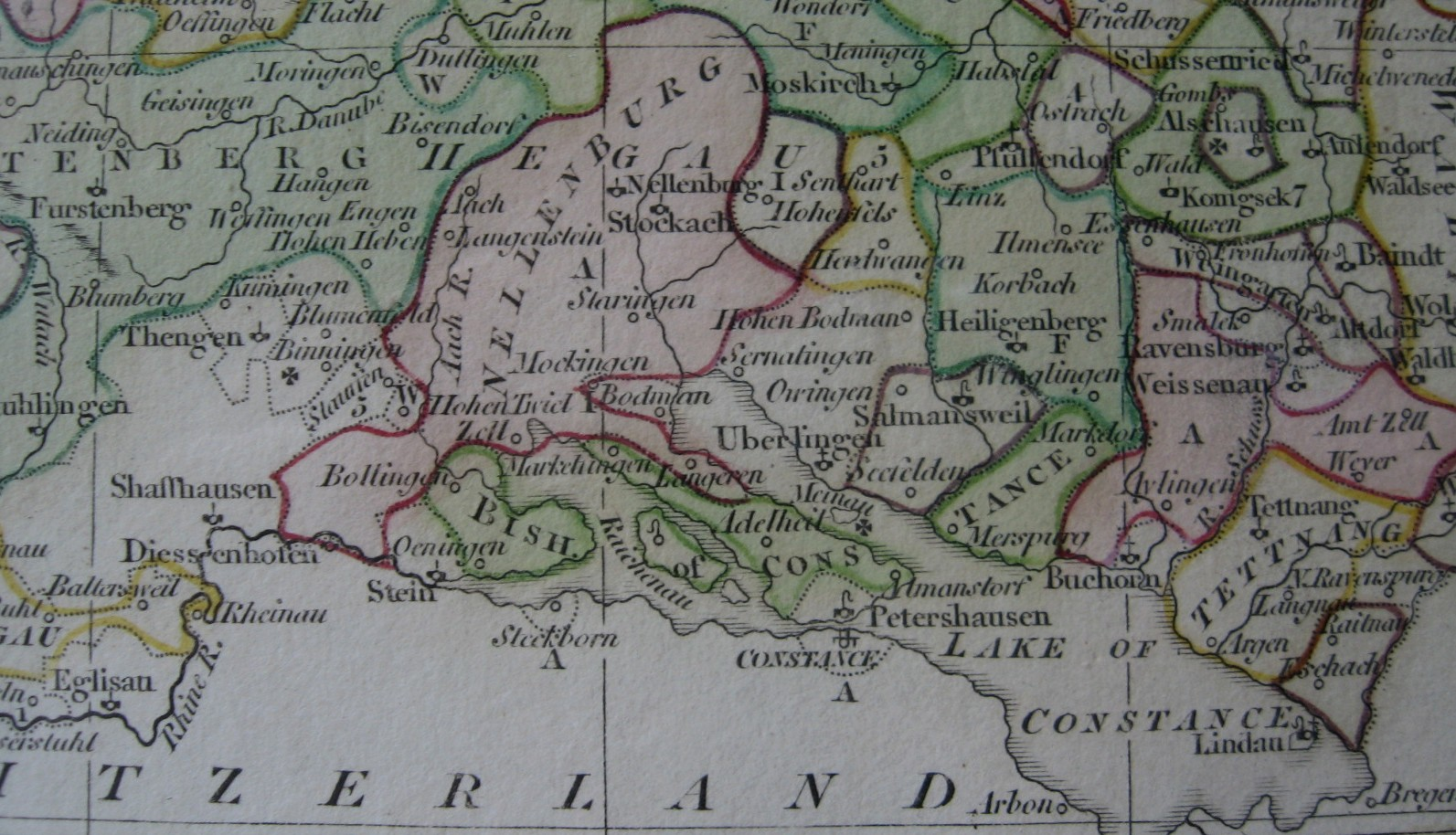 The territory of the Prince-Bishopric of Constance (Hochstift Konstanz) at the western end of Lake Constance. It was considerably smaller than the Diocese of Constance which covered a large portion of Swabia and extended across central Switzerland all the way south to St. Gotthard. Cropped from a map of Swabia published by R. Wilkinson in 1802.